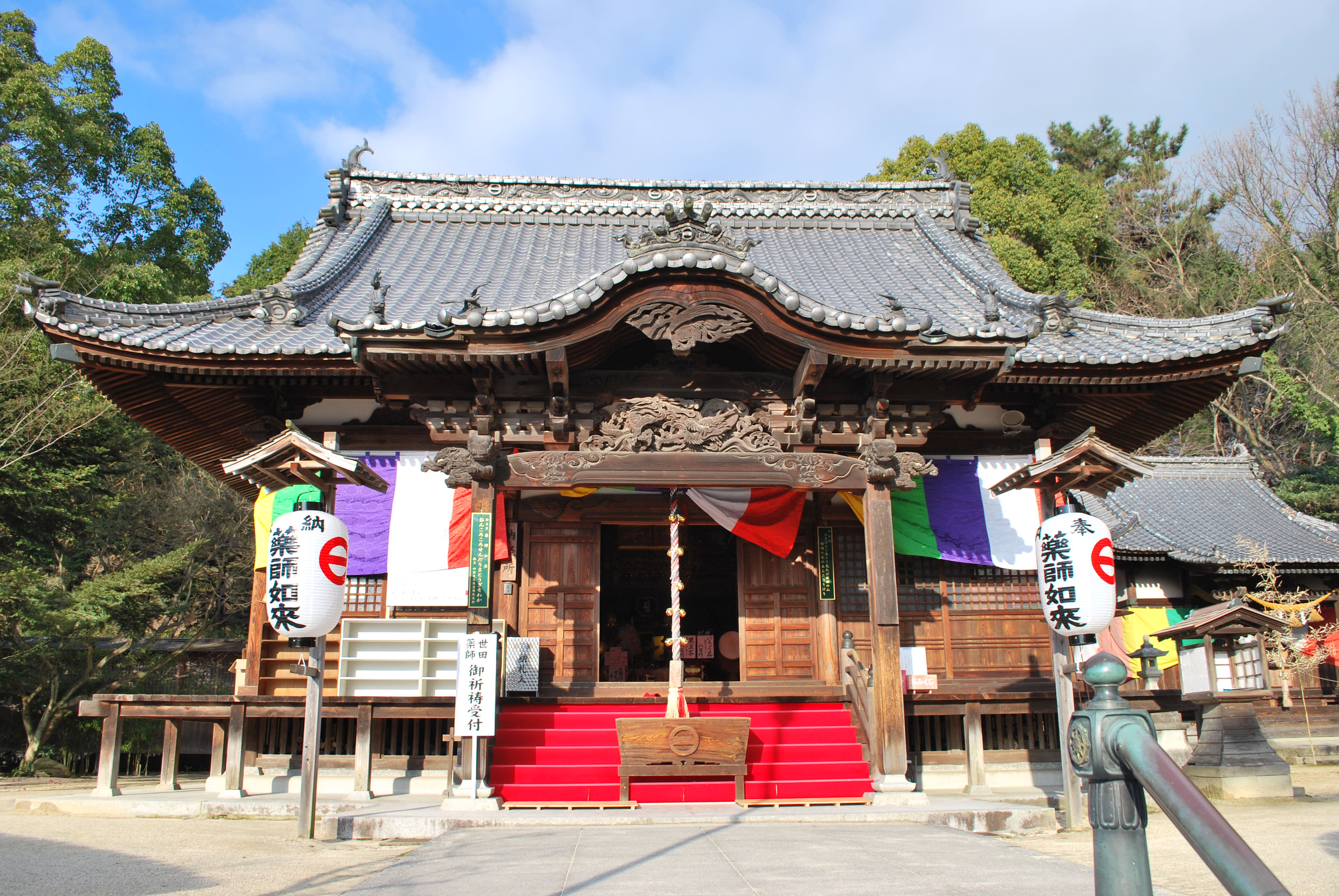 Daishi-dō, Seta-yakushi